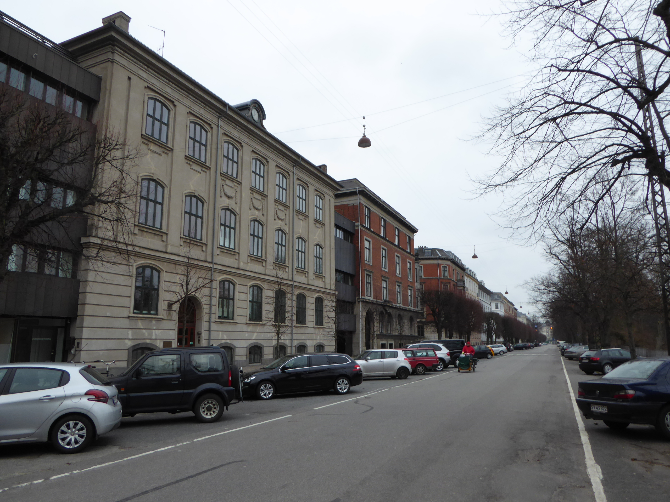 The street Stockholmsgade in Østerbro in Copenhagen.